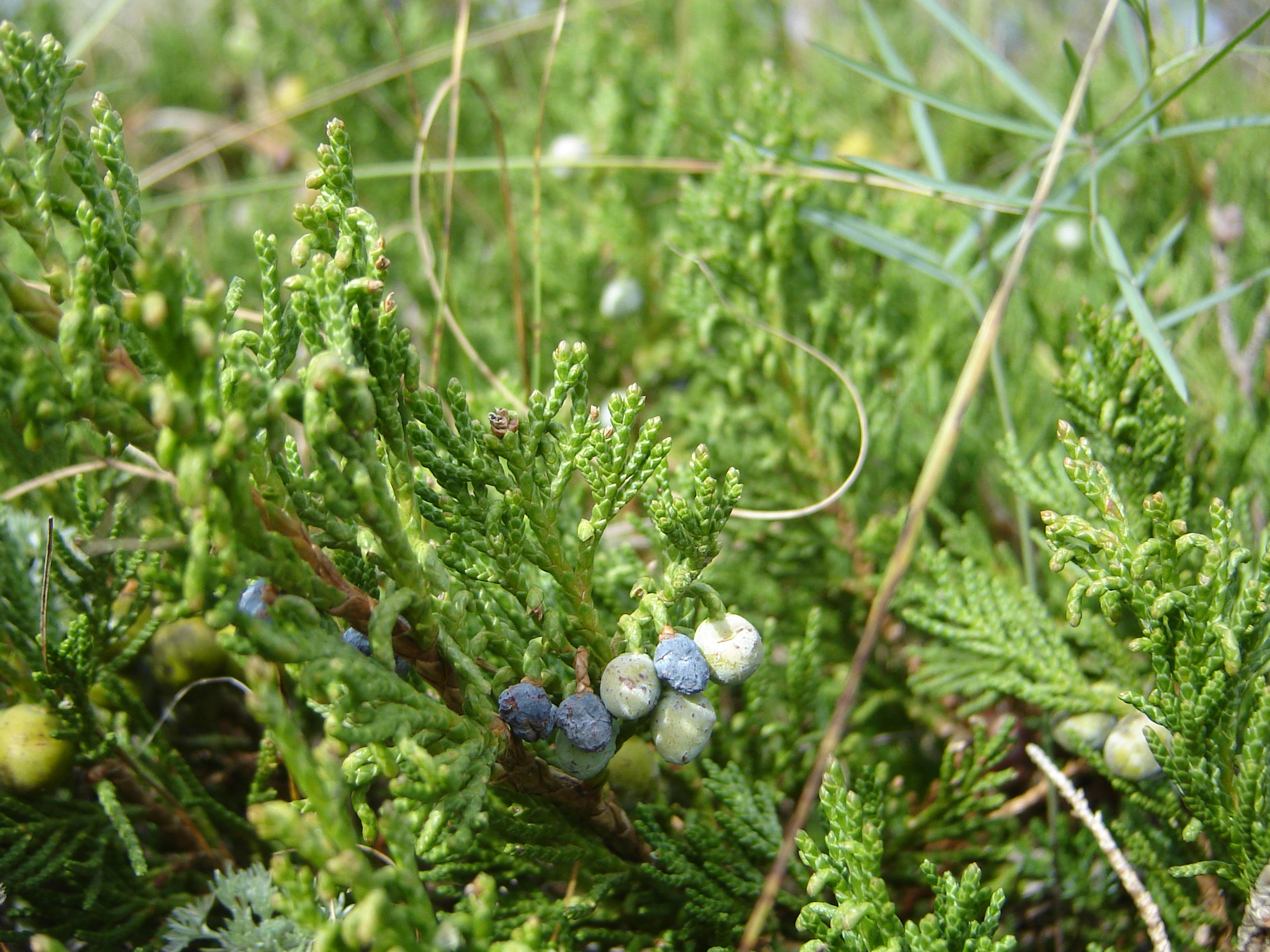 Creeping Juniper Juniperus horizontalis (Cupressaceae). Photo taken at Chief Whitecap Park near Saskatoon Saskatchewan.